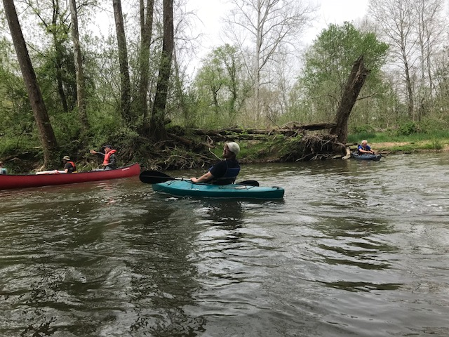 Kayakers on Octoraro Creek near the Pennsylvania-Maryland border, May 5, 2018